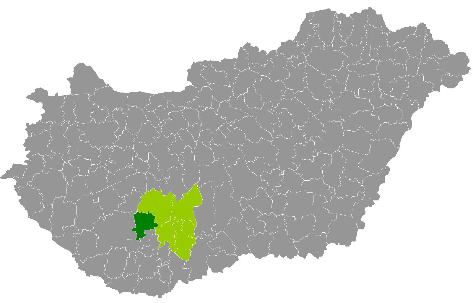 Location of Dombóvár District, Tolna, Hungary